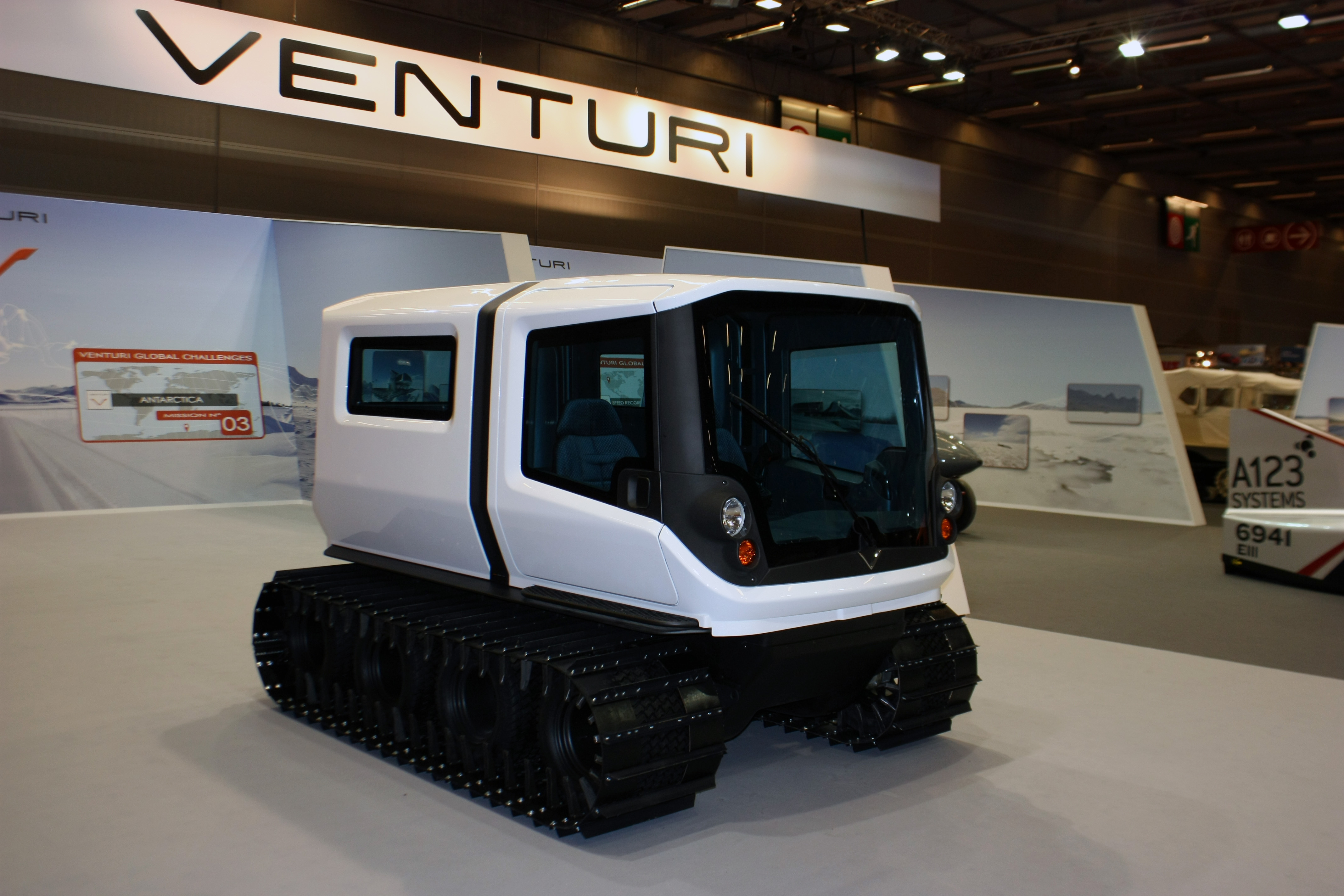 The Venturi Antarctica is a green vehicle built to be used in Antarctica. It is planned to experiment with it at the Princess Elizabeth station.